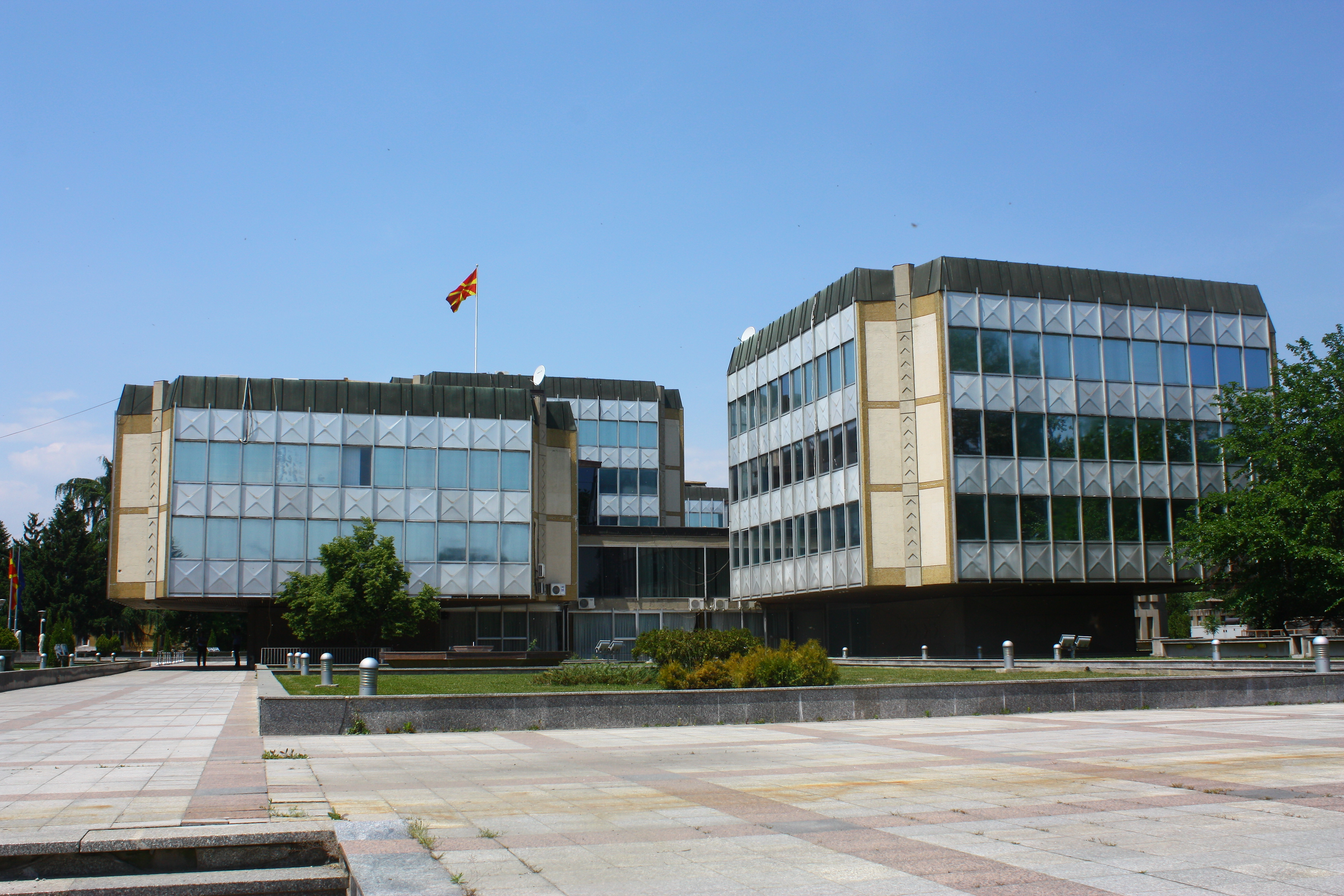 Skopje, Macedonia